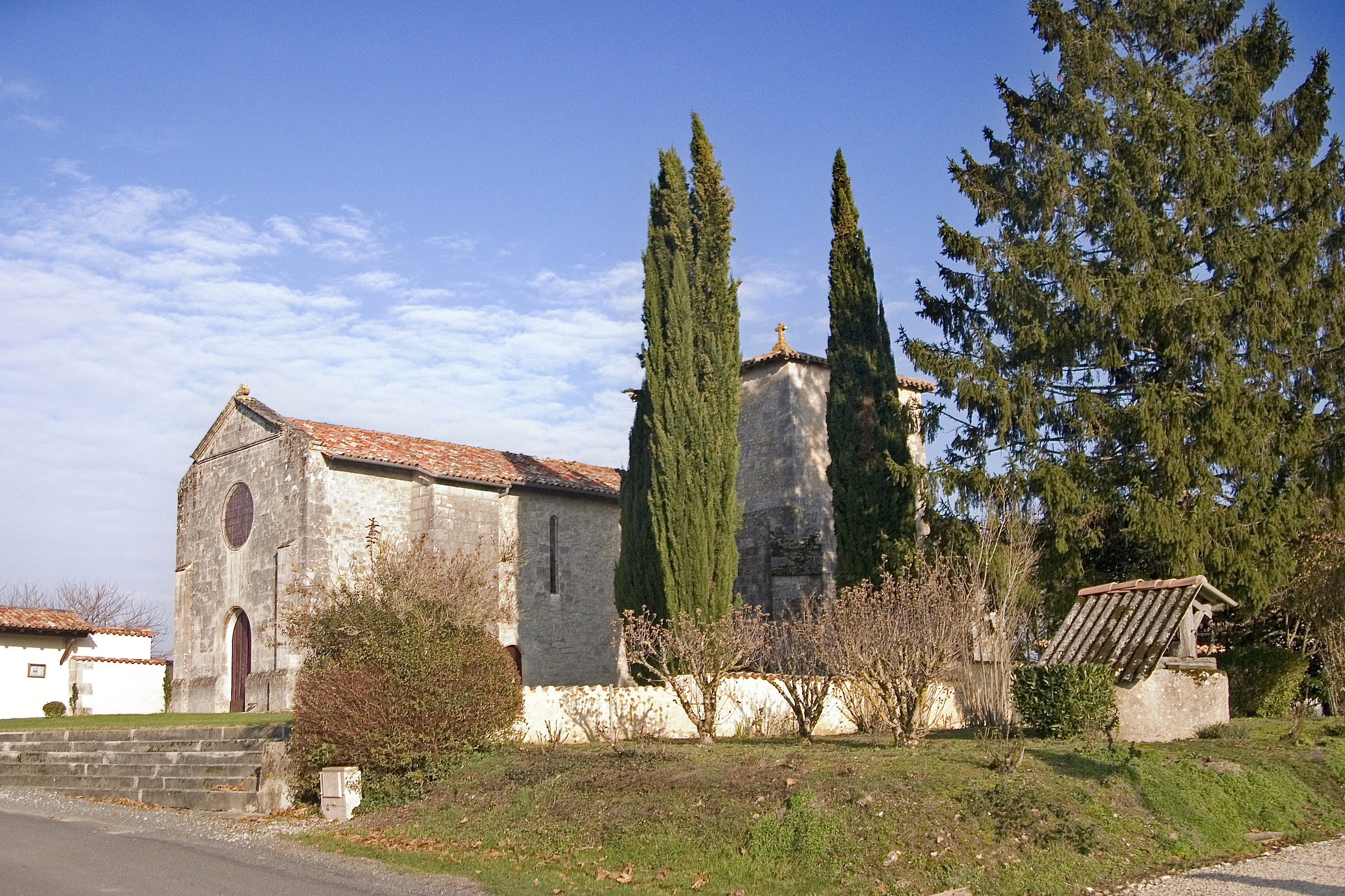 Church of Saint Felix, Messac, Charente-Maritime